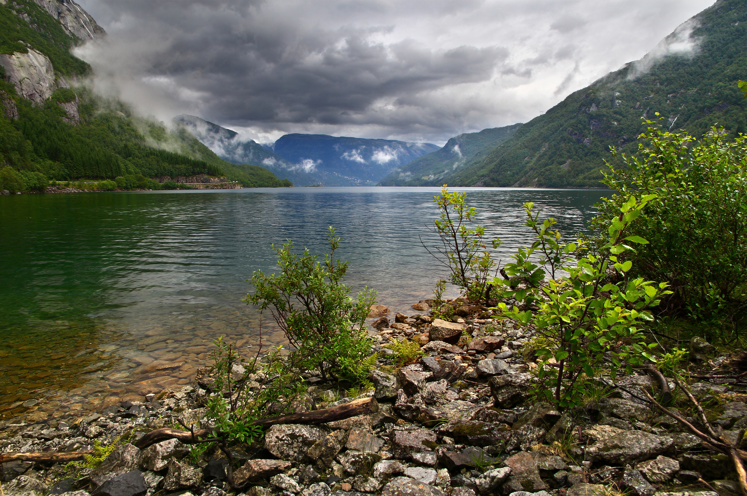 A view to Røldalsvatnet from the southern end of the lake in the municipality of Odda, Hordaland, Norway in 2011 August.